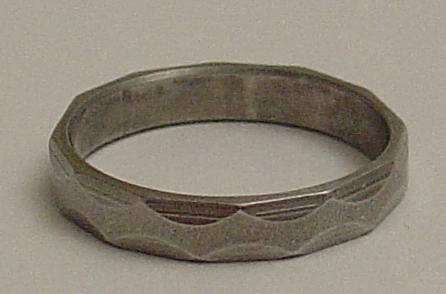 A Canadian Engineer's Iron Ring, Stainless Steel Version. This is a picture of my personal iron ring, received at the University of Waterloo, Camp 15, on February 17, 2004. .